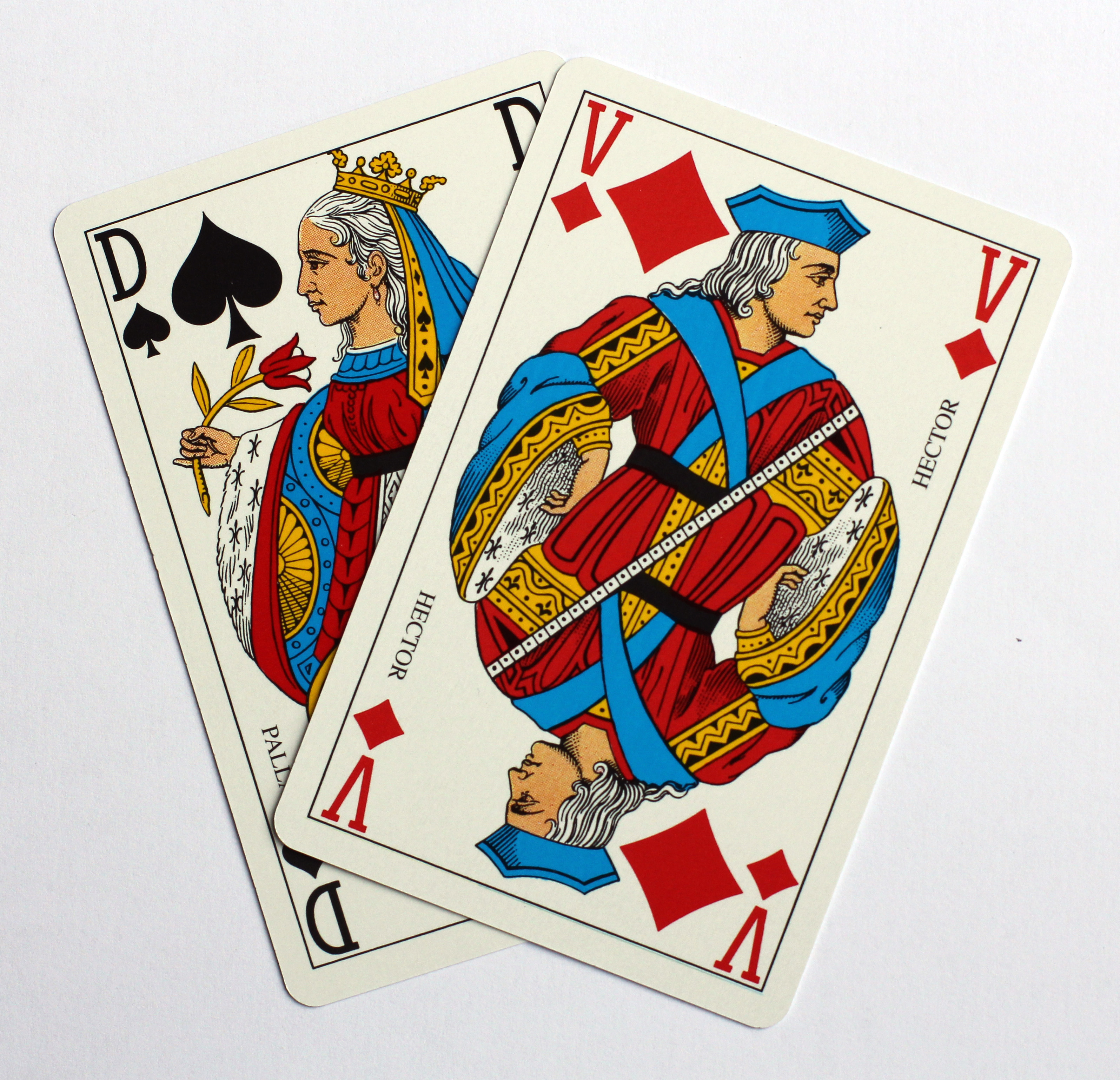 A marjolet when Diamonds are trumps in the historical French card game of Marjolet, comprising the Queen of Spades and Jack of Diamonds.